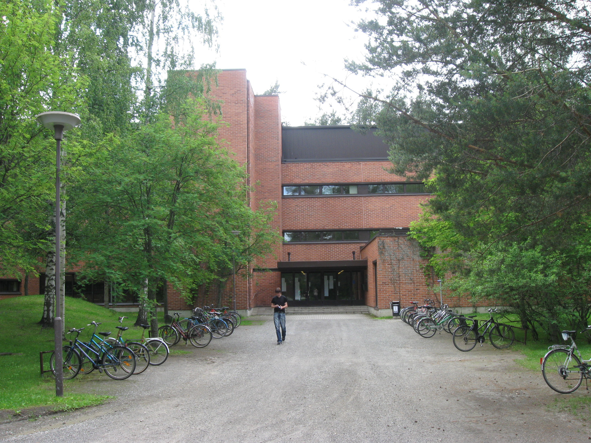 University of Joensuu's Futura Building